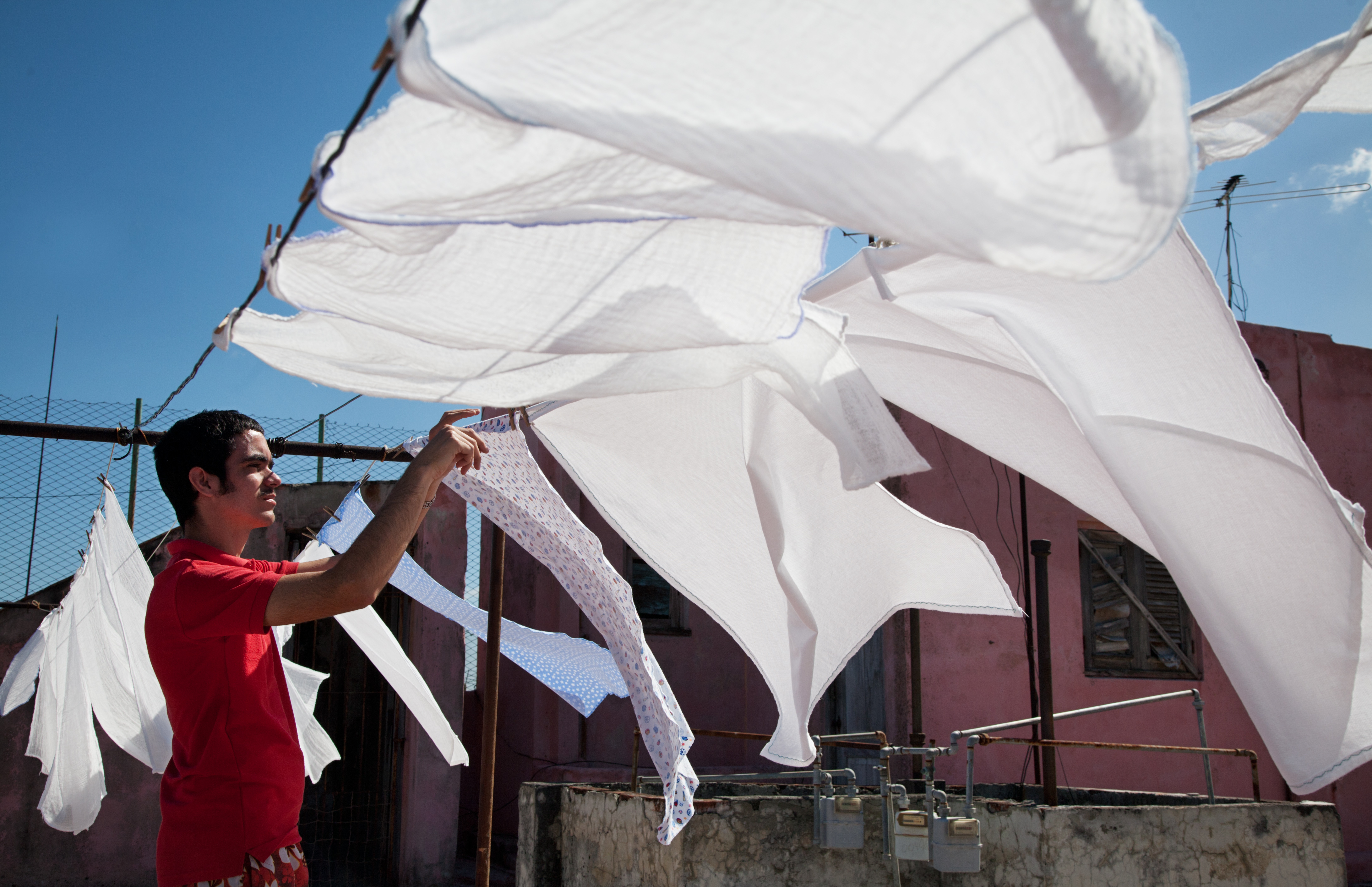 Daniel, 19, taling care of the wash; most of it consists in diapers for his son. Havana (La Habana), Cuba